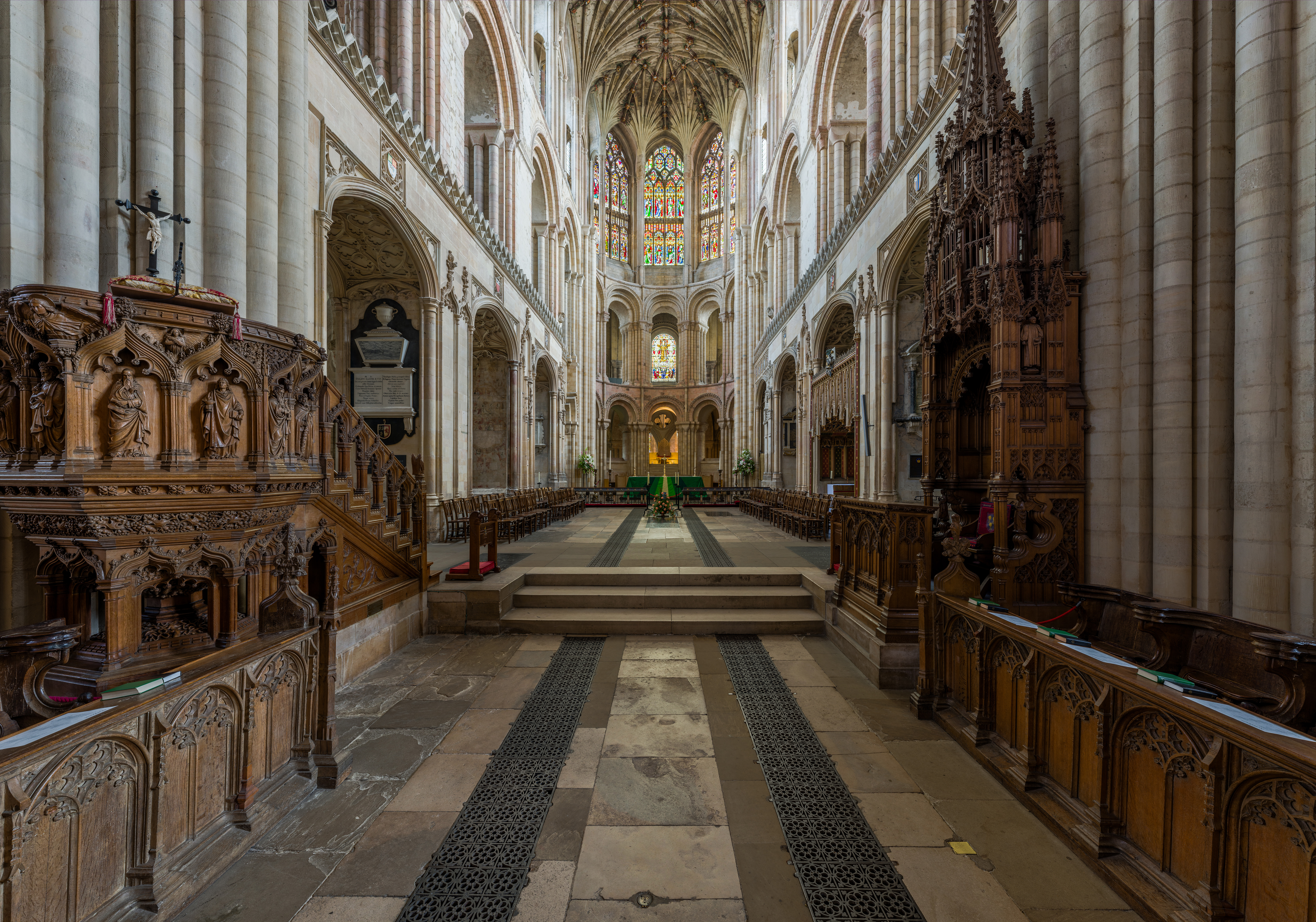 The view from the choir to the presbytery of Norwich Cathedral in Norfolk, England.